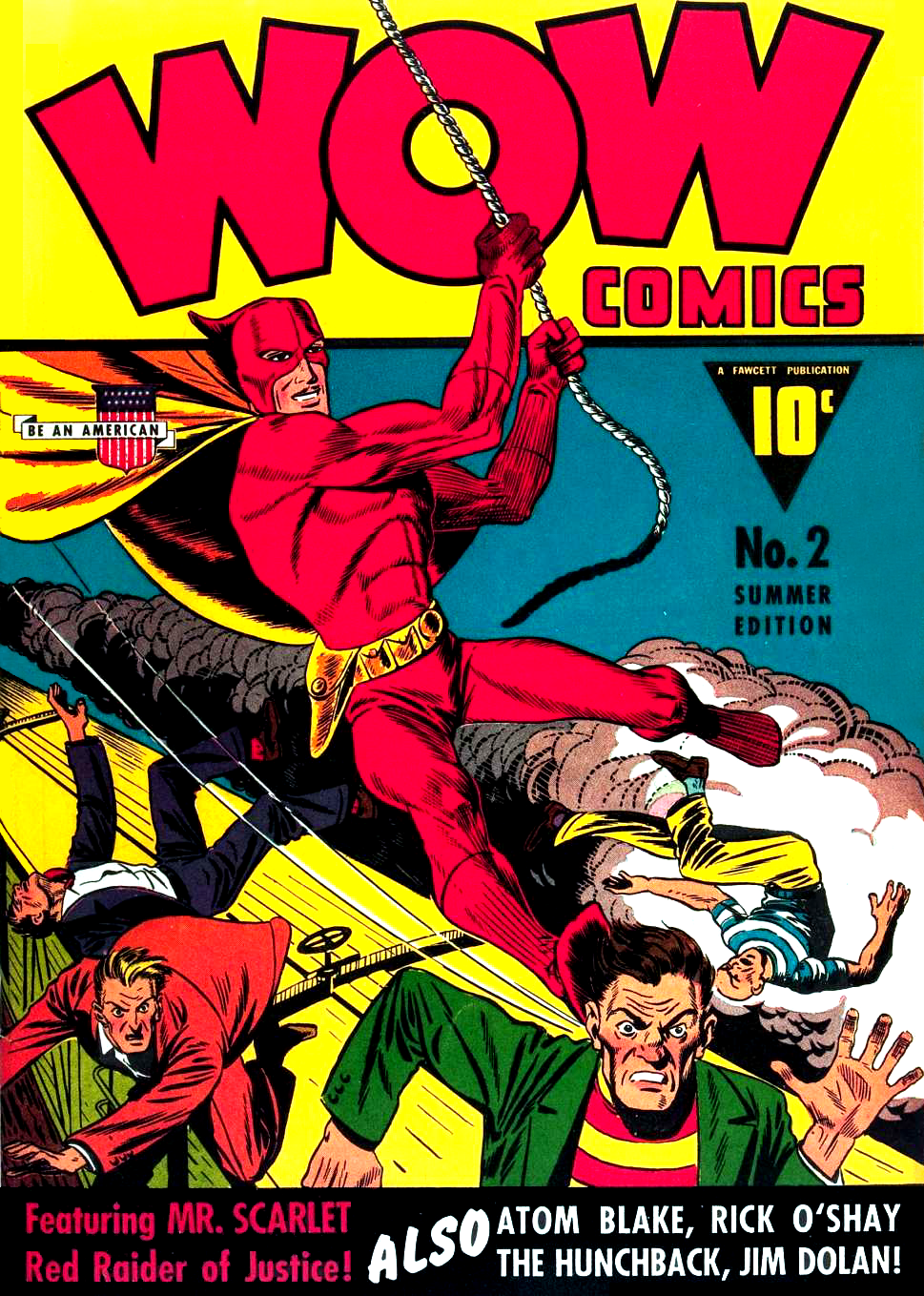 Mr Scarlet swings into action on the cover of Wow Comics number 2 (Summer, 1941). PNG version of this file.